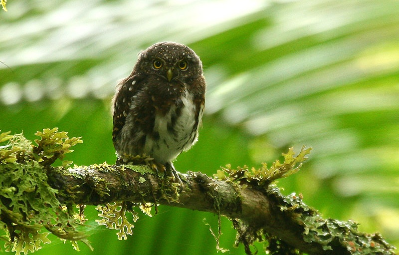 Costa Rican Pygmy-owl (Glaucidium costaricanum) on a branch. Savegre Lodge, near San Gerardo, Costa Rica 12 July 2008